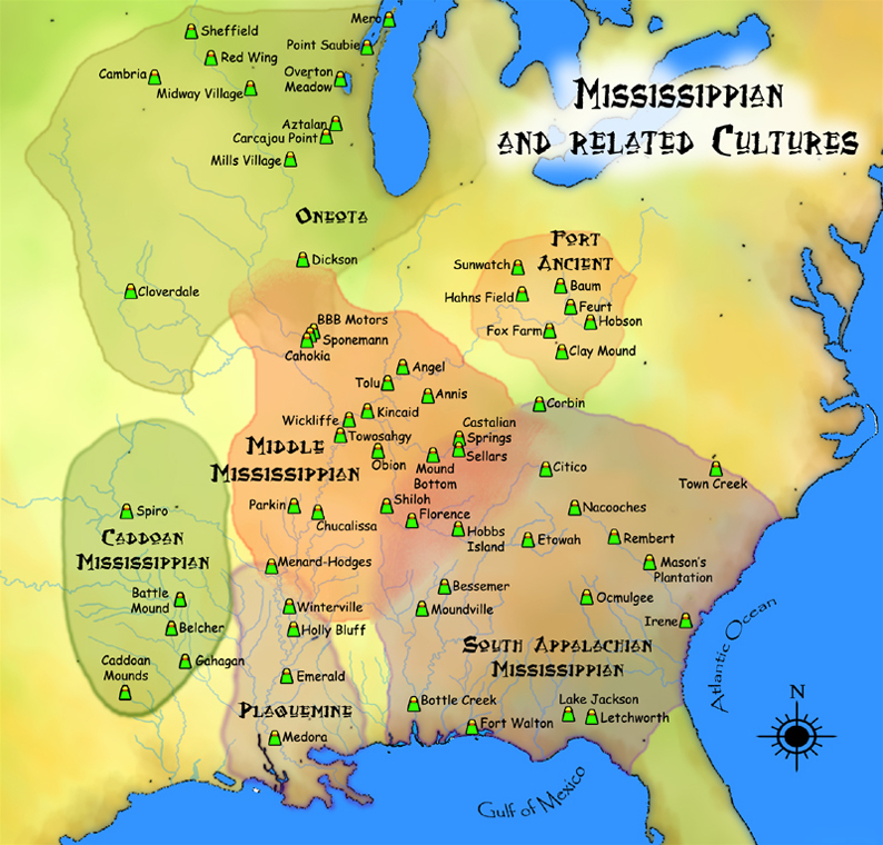 A map showing the various Mississippian cultures, including the Caddoan Mississippian culture and the Plaquemine culture, as well as the other cultures influenced by the Mississippians, the Fort Ancient culture and Oneota peoples. Also shows a few important sites such as Cahokia, Moundville, Etowah, Town Creek, Spiro, Kincaid and Angel.